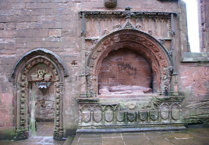 The grave of princess Margaret at Lincluden Collegiate Church, Dumfriesshire, Scotland